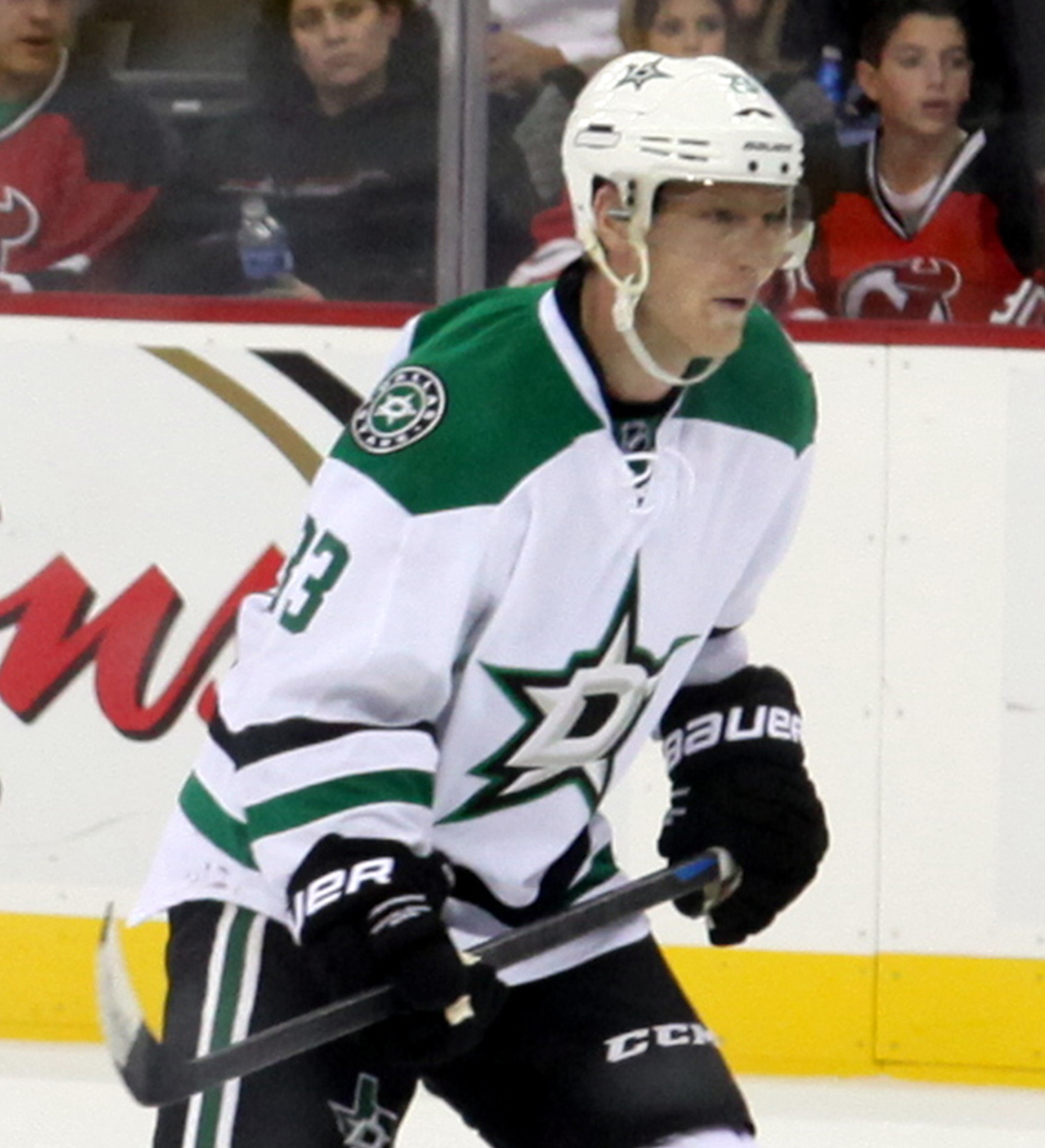 Hemsky in October 2014.